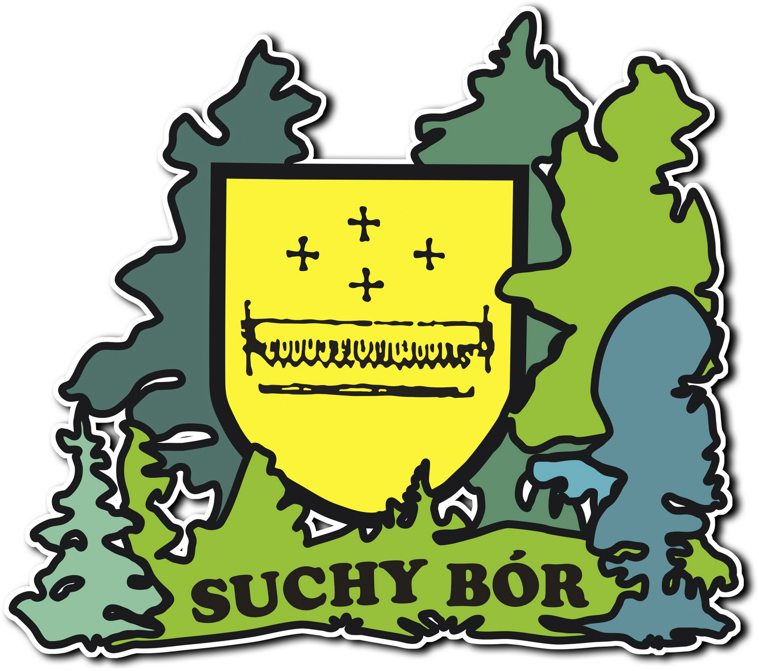 Suchy Bor's logo with its tradionional coat of arms